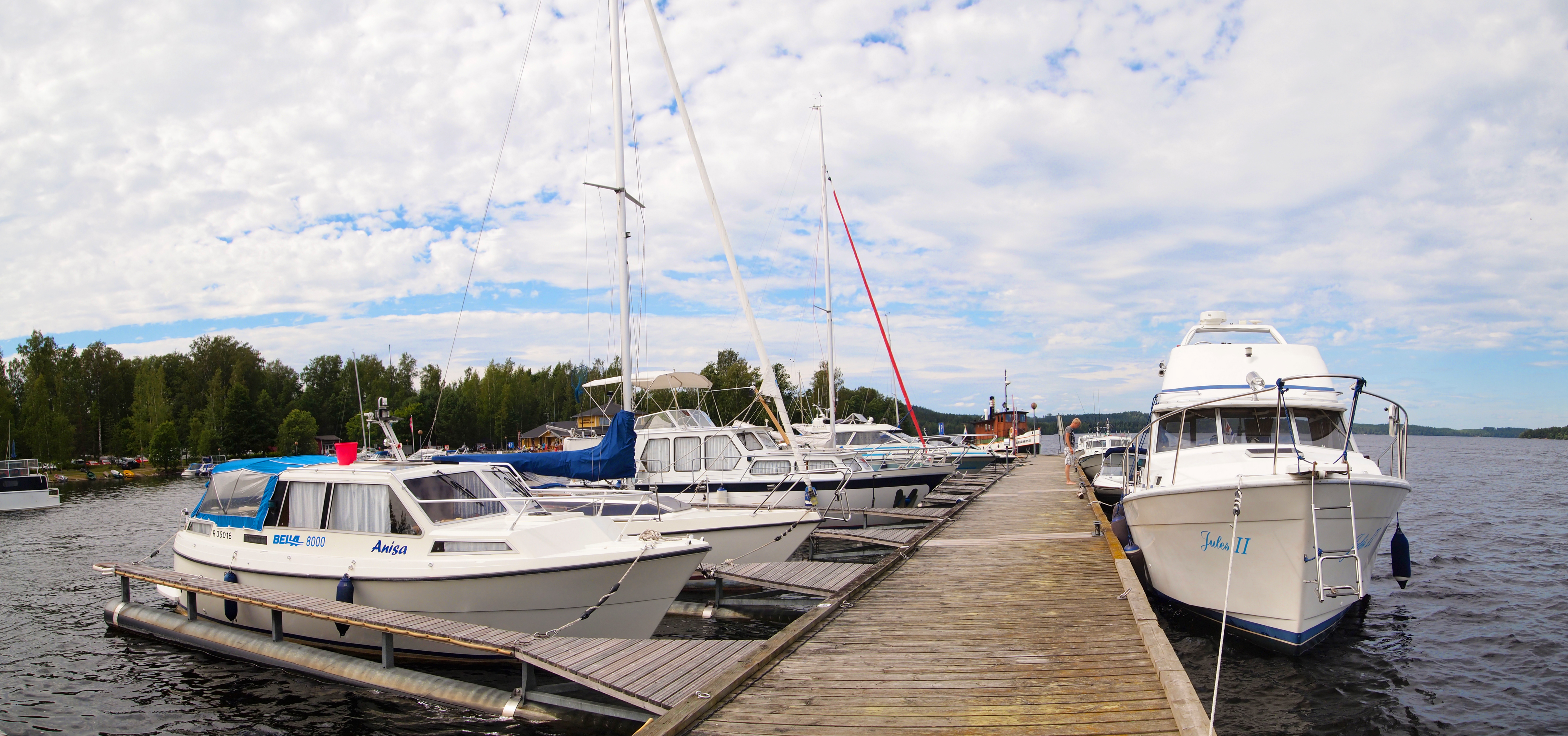 Harbour in Vääksy, Asikkala. This photograph was taken with an Olympus E-PL1